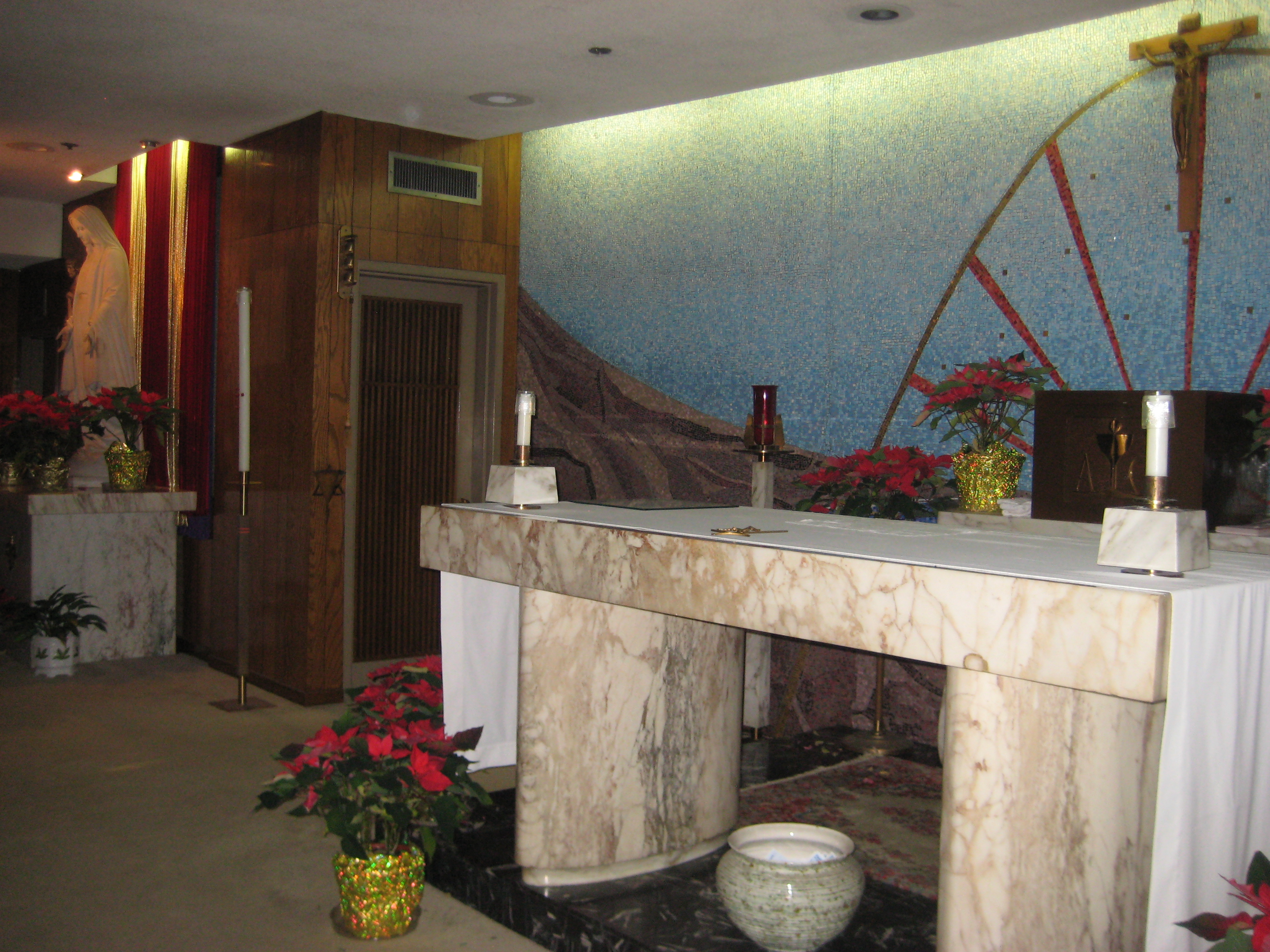 The Lourdes Center is a Roman Catholic chapel on Beacon Street in Kenmore Square ( Boston, Massachusetts) dedicated to Our Lady of Lourdes and operated by the Marist Fathers. It was established in 1950 by Cardinal Richard J. Cushing and Bishop Pierre-Marie Theas to distribute Lourdes water in the United States.